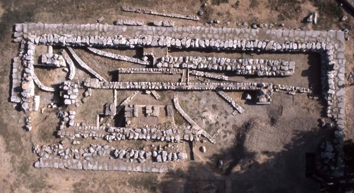 Aerial view of the Apollo Daphnephoros Temple at Eretria (Euboea)